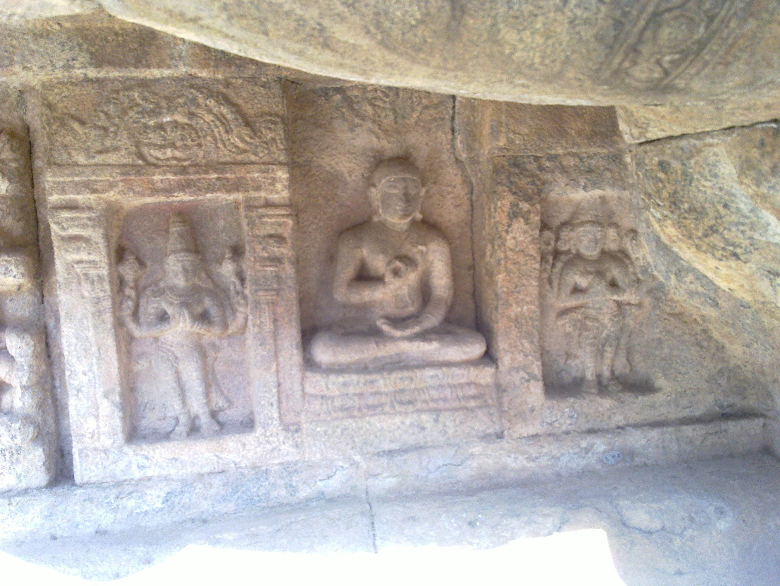 Buddha Statue in Airavatesvara Temple-Tharasuram in Tamilnadu